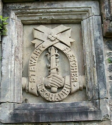 Dunans Castle, Glendaruel The coat of arms on the curtain wall